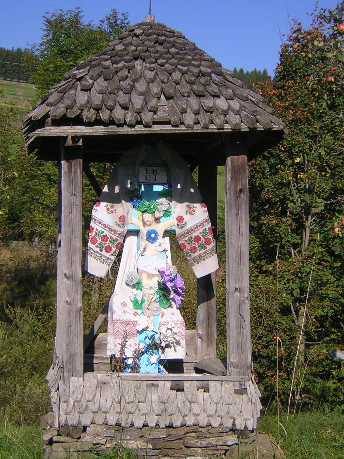 Wayside cross in Gukliviy, Ukraine.